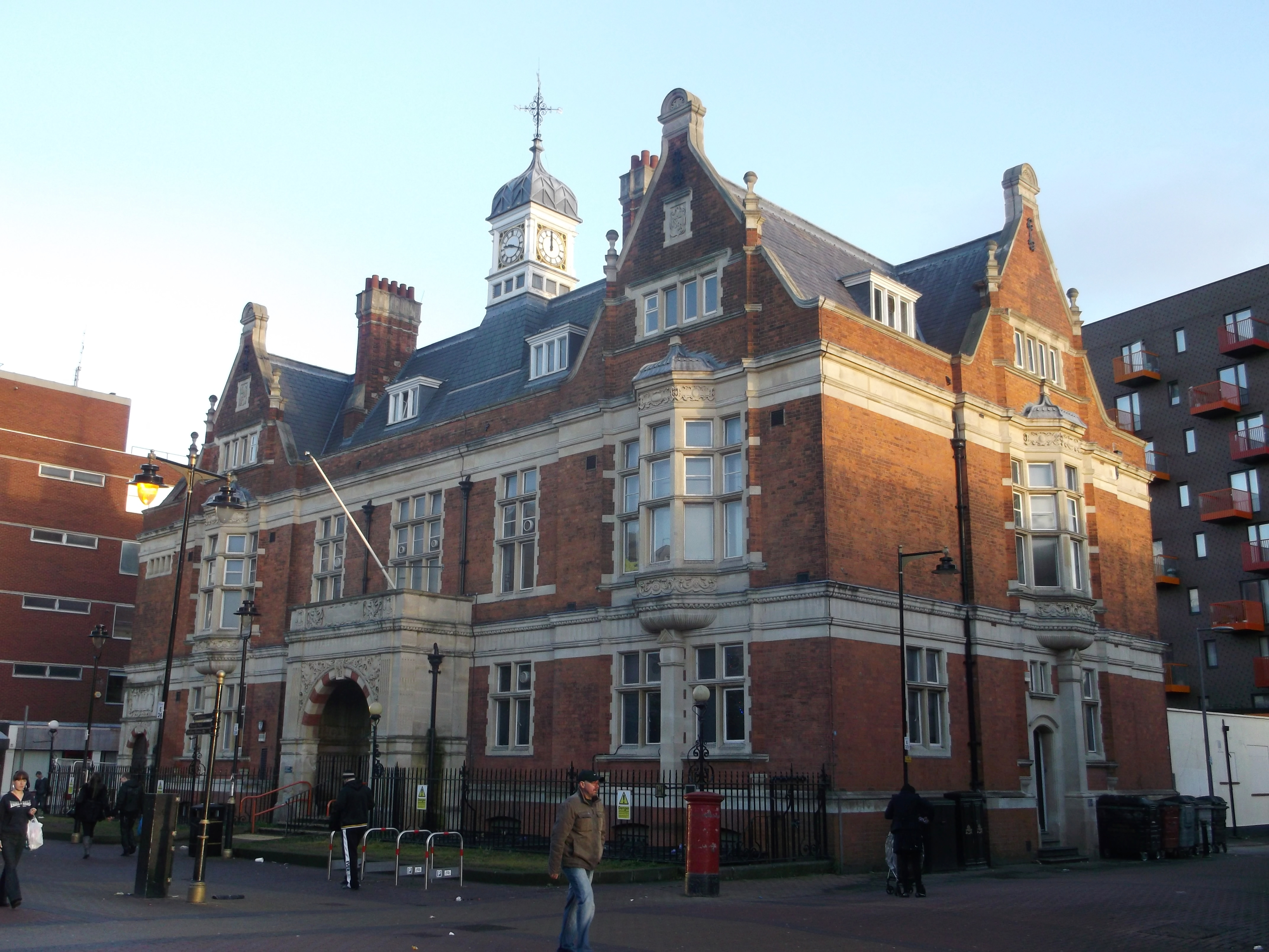 Barking Magistrates Court